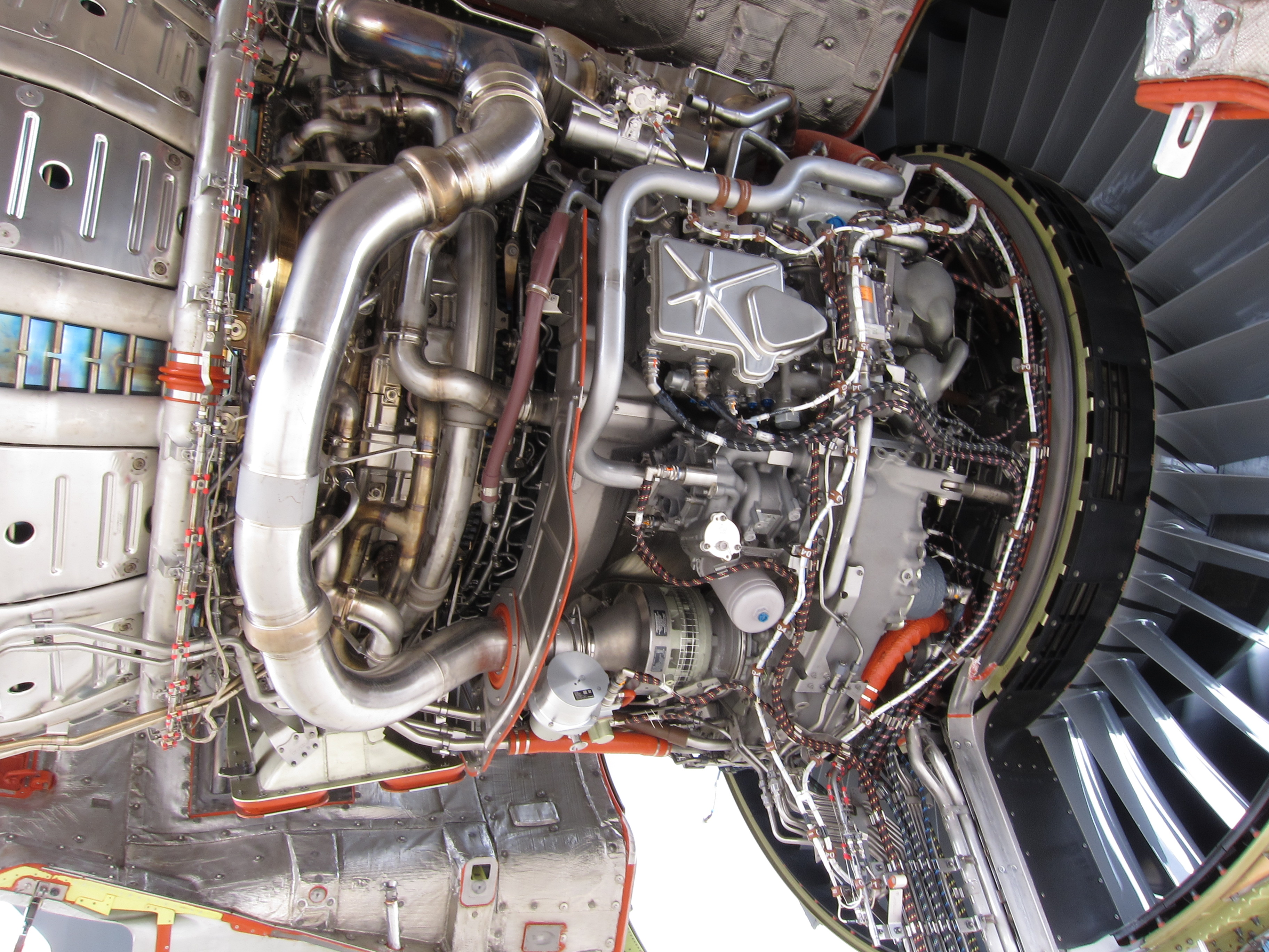 Close-up view of the General Electric GEnx engine core. The fan blades and static vanes are visible on the right of the photo.